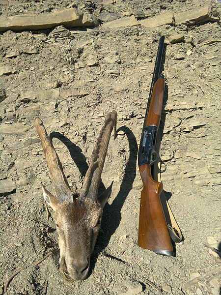 Hunted animal's head, Turkey.